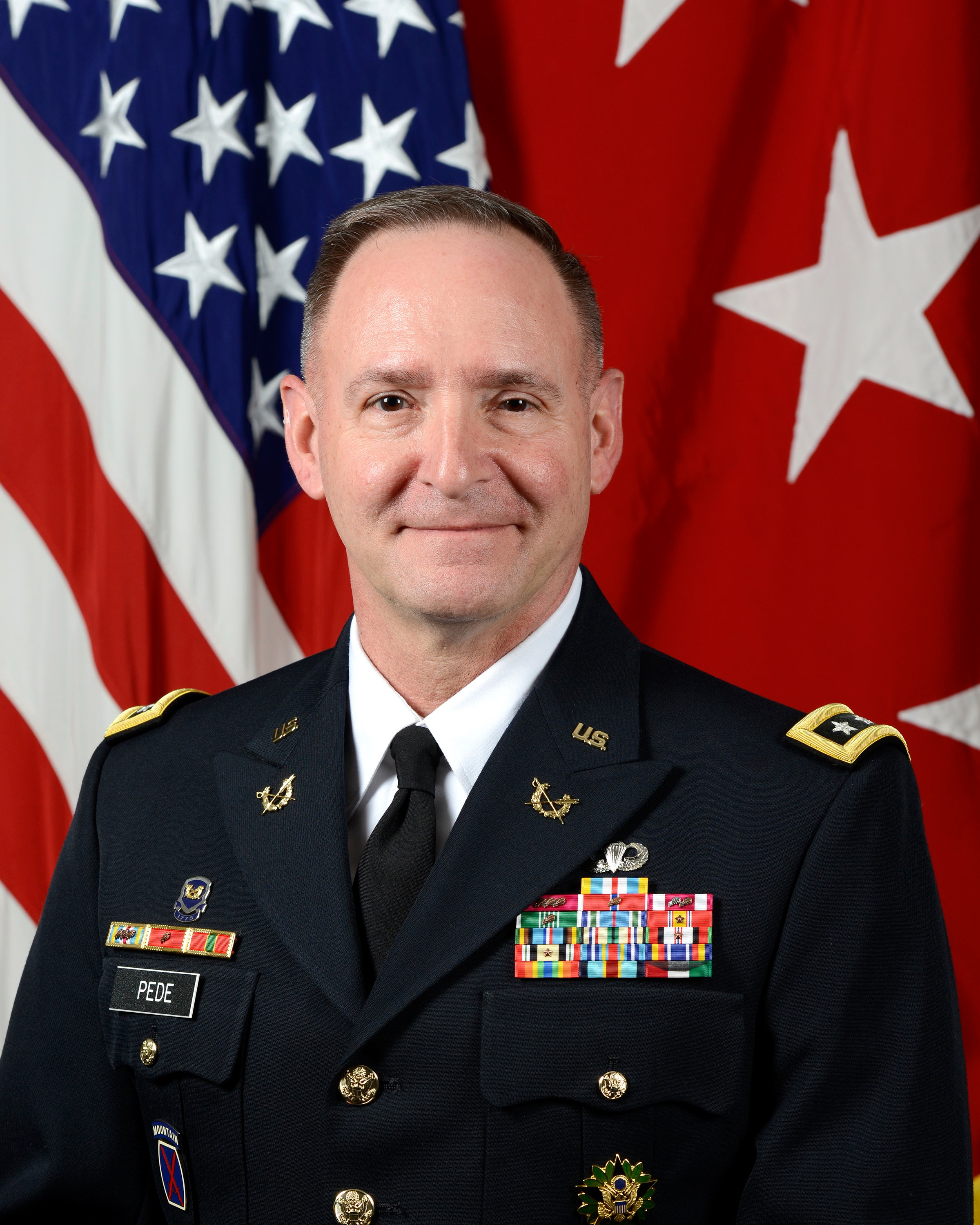 U.S. Army Lieutenant General Charles N.Pede , poses for a command portrait in the Army portrait studio at the Pentagon in Arlington, VA, July 25 , 2017. (U.S. Army photo by William Pratt)